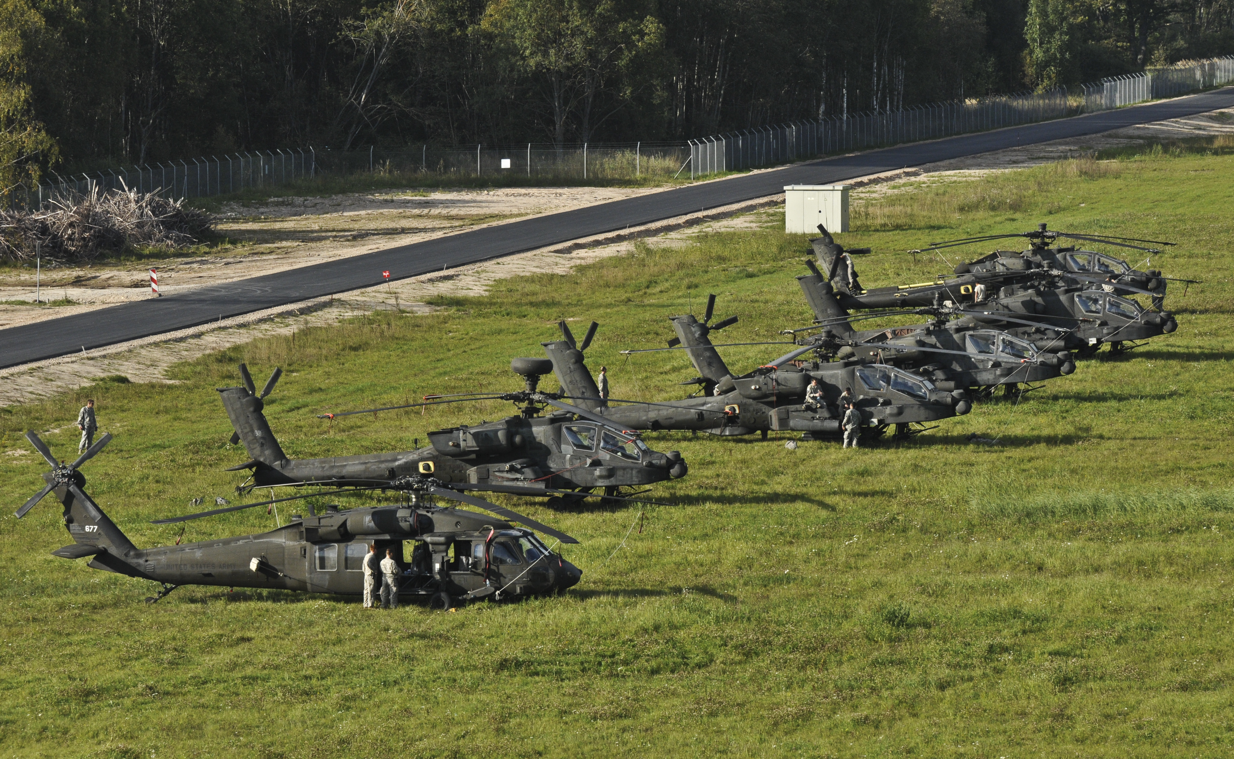 The 12th Combat Aviation Brigade, 173rd Airborne Brigade, 2d Cavalry Regiment and other allied forces conduct airfield seizure training at Lielvarde Airbase, Latvia, in support of Exercise Steadfast Javelin II Sept. 7, 2014. Steadfast Javelin is a NATO exercise involving over 2,000 troops from 10 nations and focuses on increasing interoperability and synchronizing complex operations between allied air and ground forces.